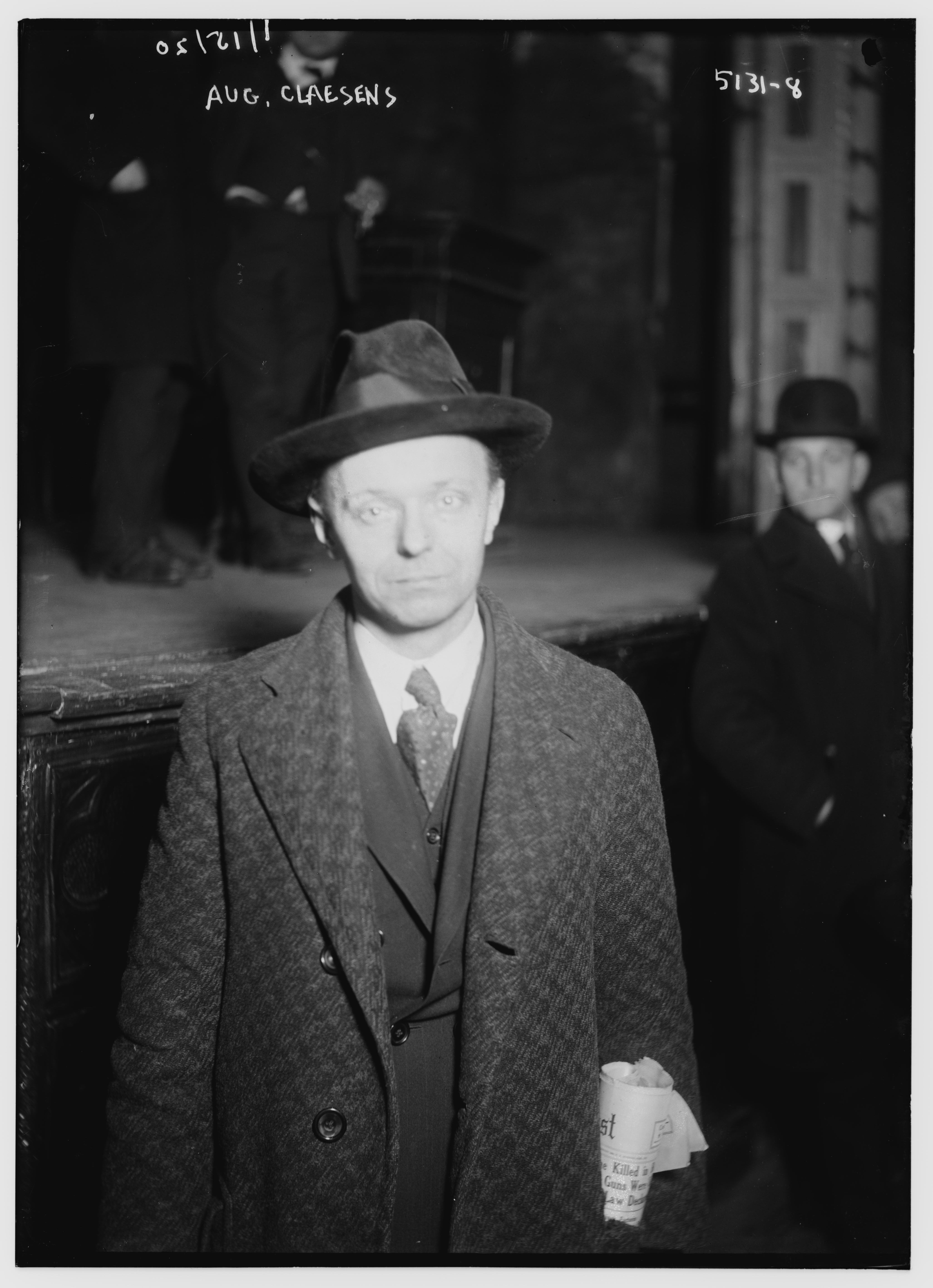 August Claessens in 1920